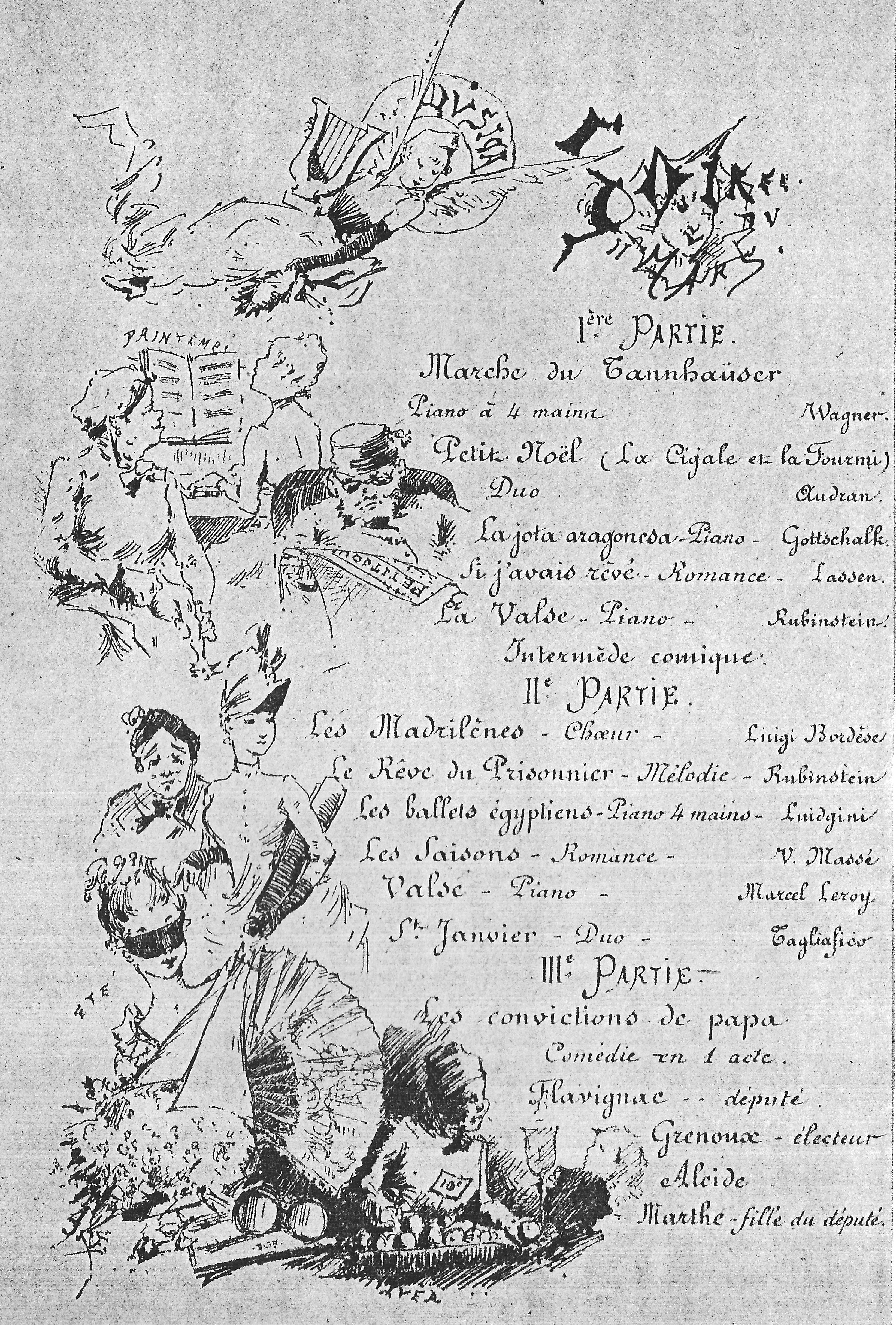 programme 1 Jean de Francqueville